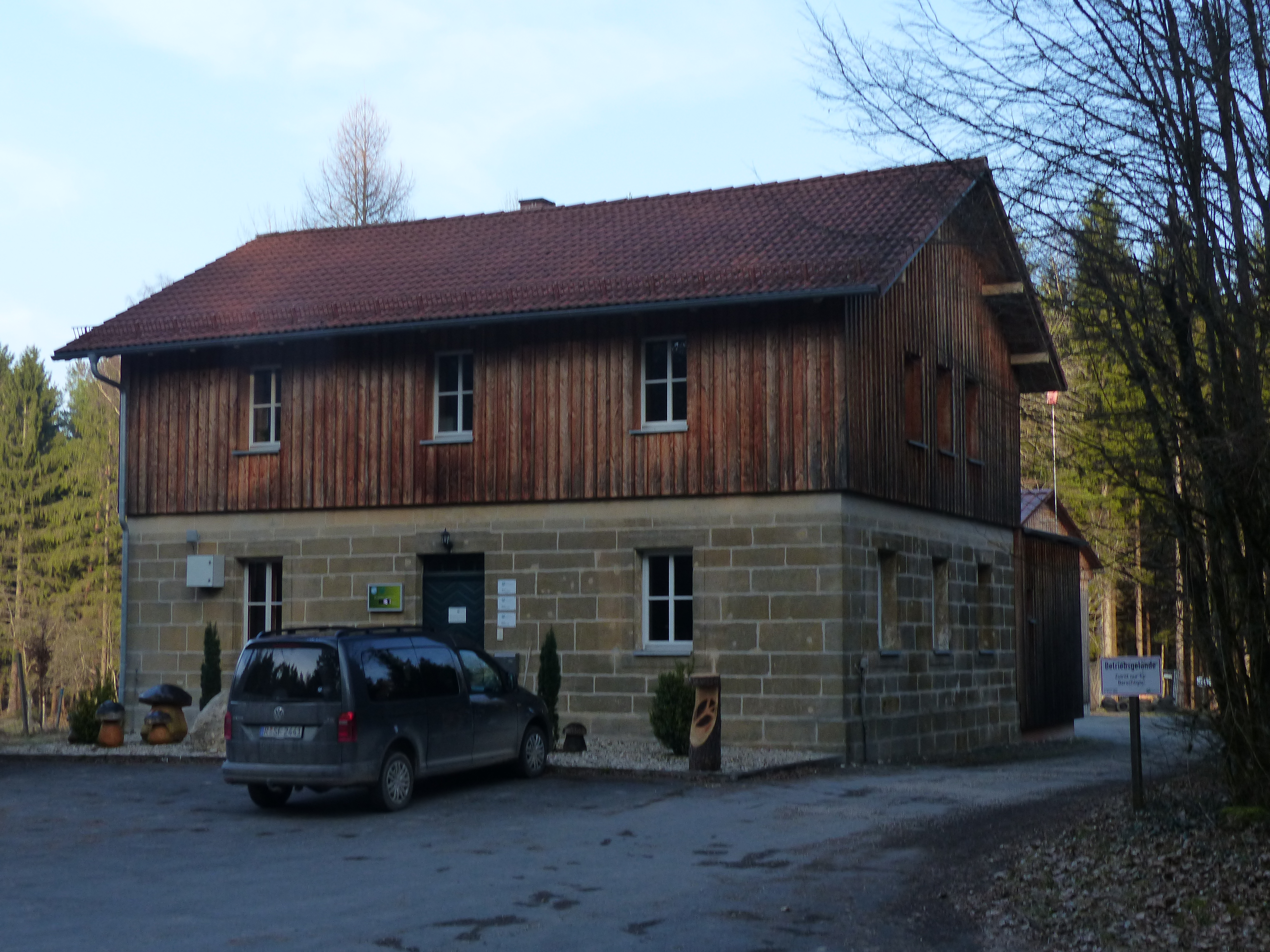 The solitude Hufeisen-Waldhaus, part of the town of Pegnitz